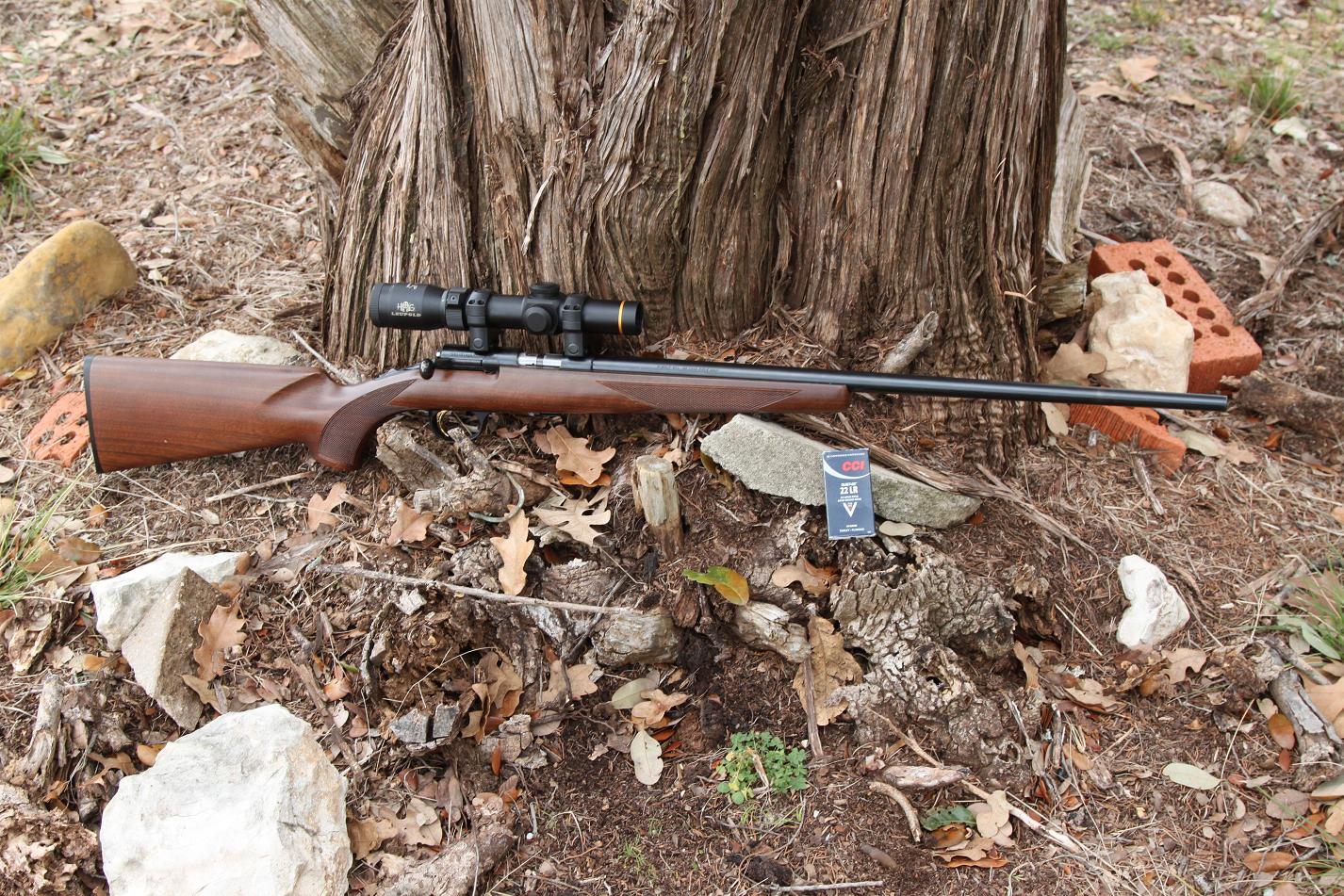 Browning T-Bolt .22 Long Rifle